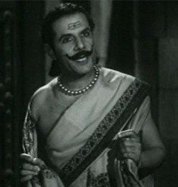 Actor Sohrab Modi as King Punj in the 1943 Hindi film Prithvi Vallabh.